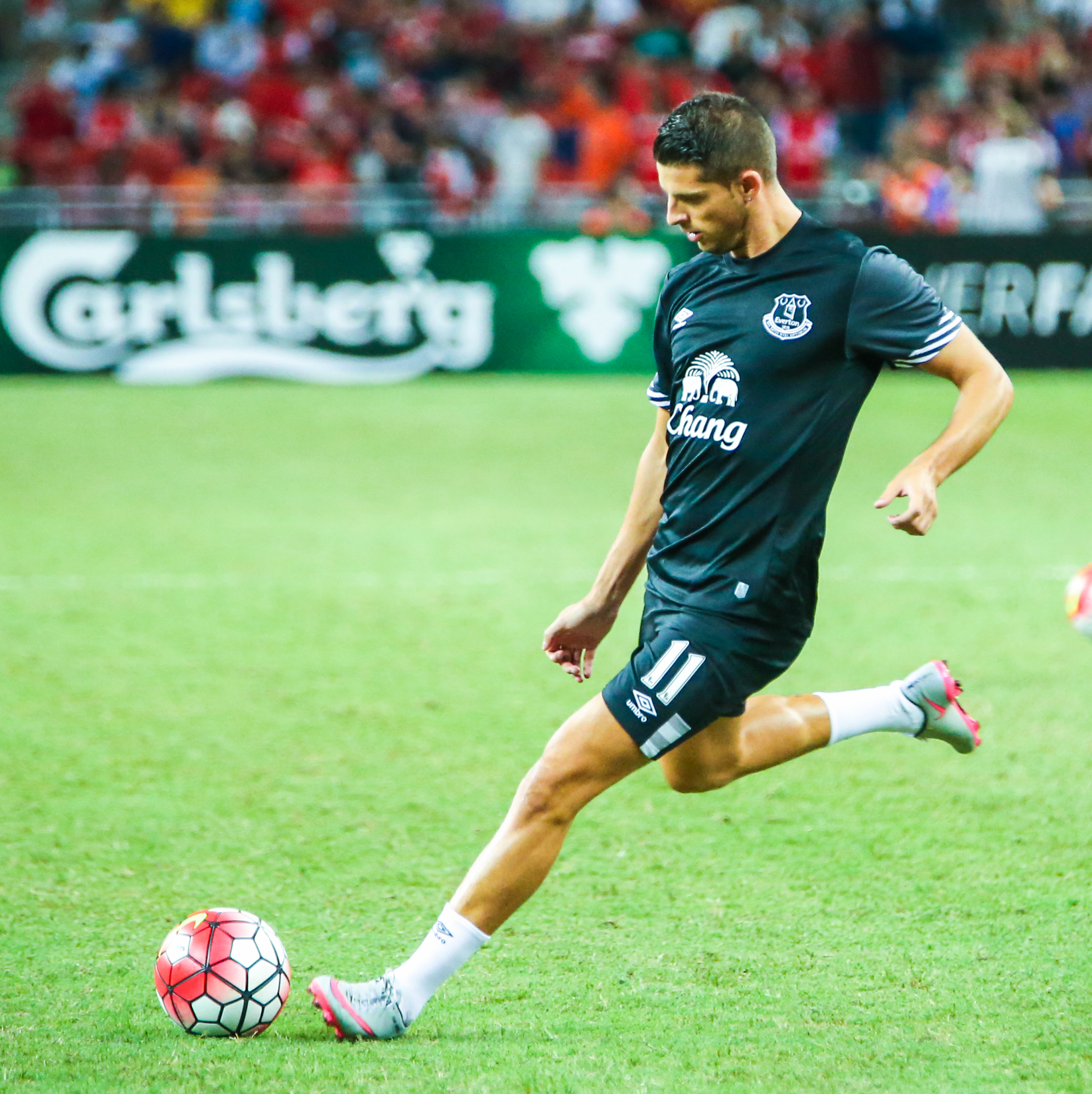 Kevin Mirallas warming-up for Everton